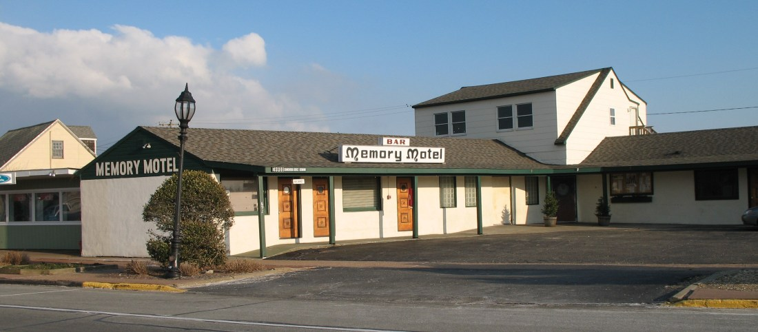 Memory Motel in Montauk, New York which is said to be the inspiration for a Rolling Stones song of the same name. Photo by poster in March 2007.